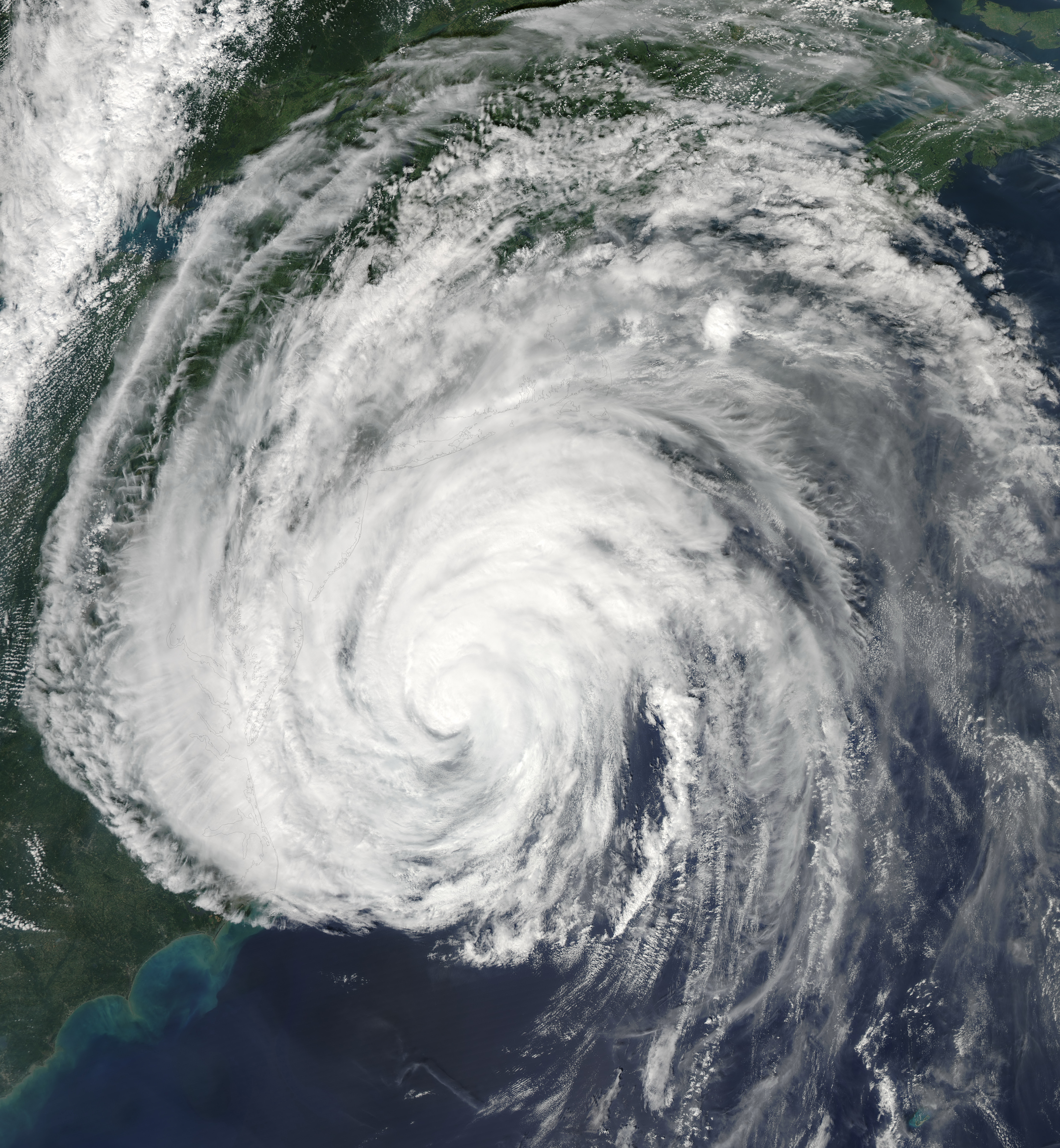 Hurricane Earl as it further weakened into a category 2 storm, and brushed by Cape Hatteras. Large flooding and hurricane force winds were expected, but Earl was not as severe, bringing only moderate flooding and tropical storm force winds. The storm then weakened to a category 1 storm with winds of 80 mph (130 km/h). In the Mid-Atlantic states, Delaware, Maryland, Virginia, and New Jersey, experienced minimal to moderate effects of Earl. Along the coastline, tropical storm winds and large waves were felt throughout, with outer rainbands also battering the areas. The Delmarva Peninsula escaped the brunt of the storm, only dealing with some of the outer rainbands and gale force winds. Off the coast of New Jersey two people were killed after being swept out to sea by rip currents. The bodies of both victims were found after they washed onshore days after Earl's passage.